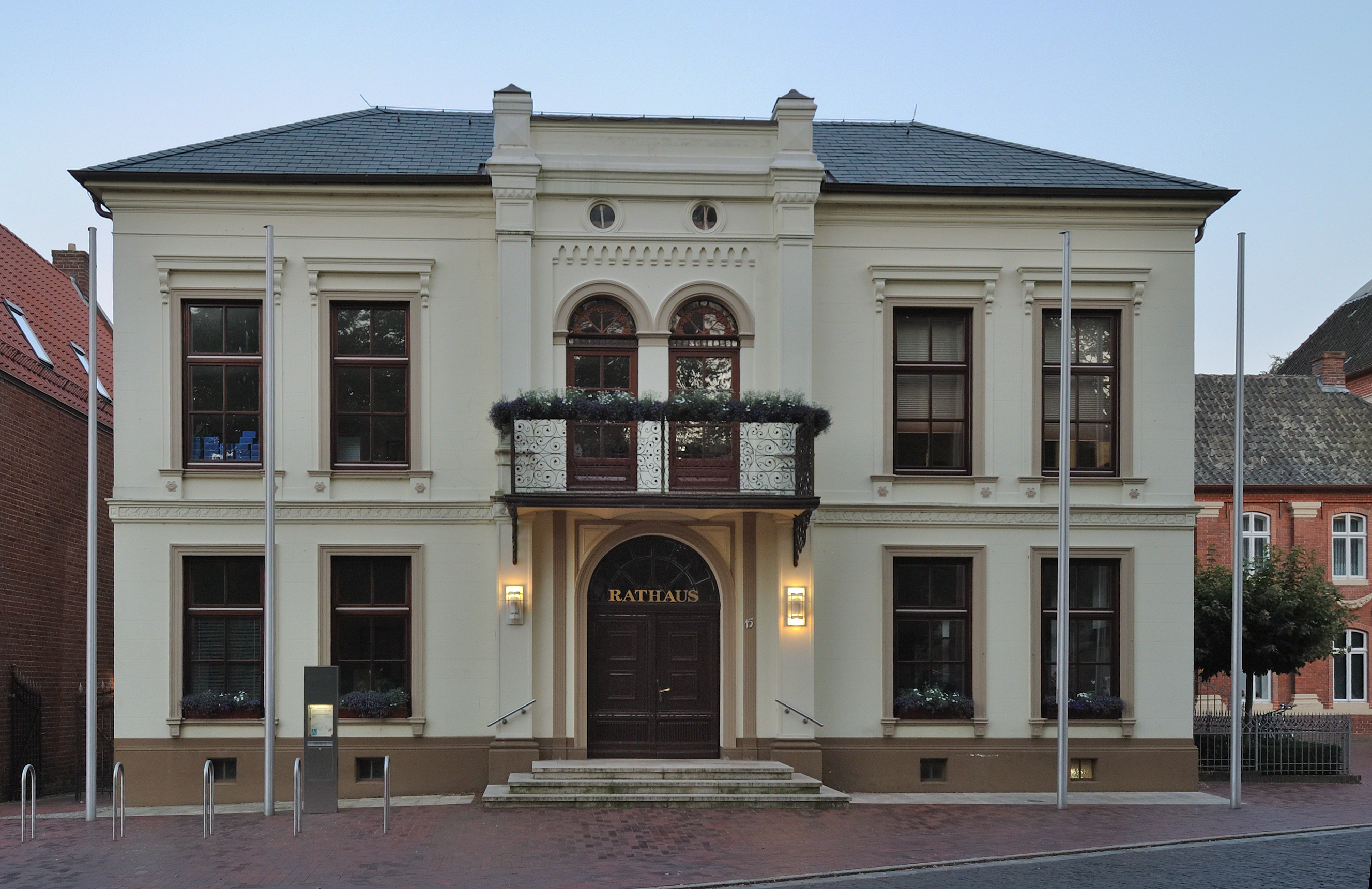 New town hall, Norden.